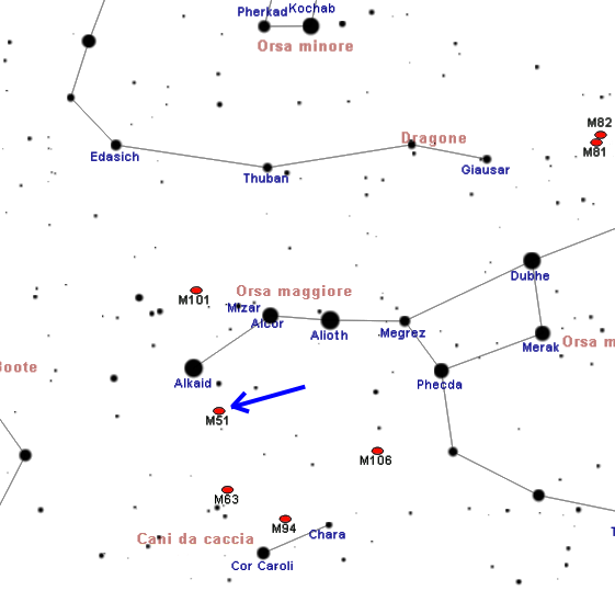 M51